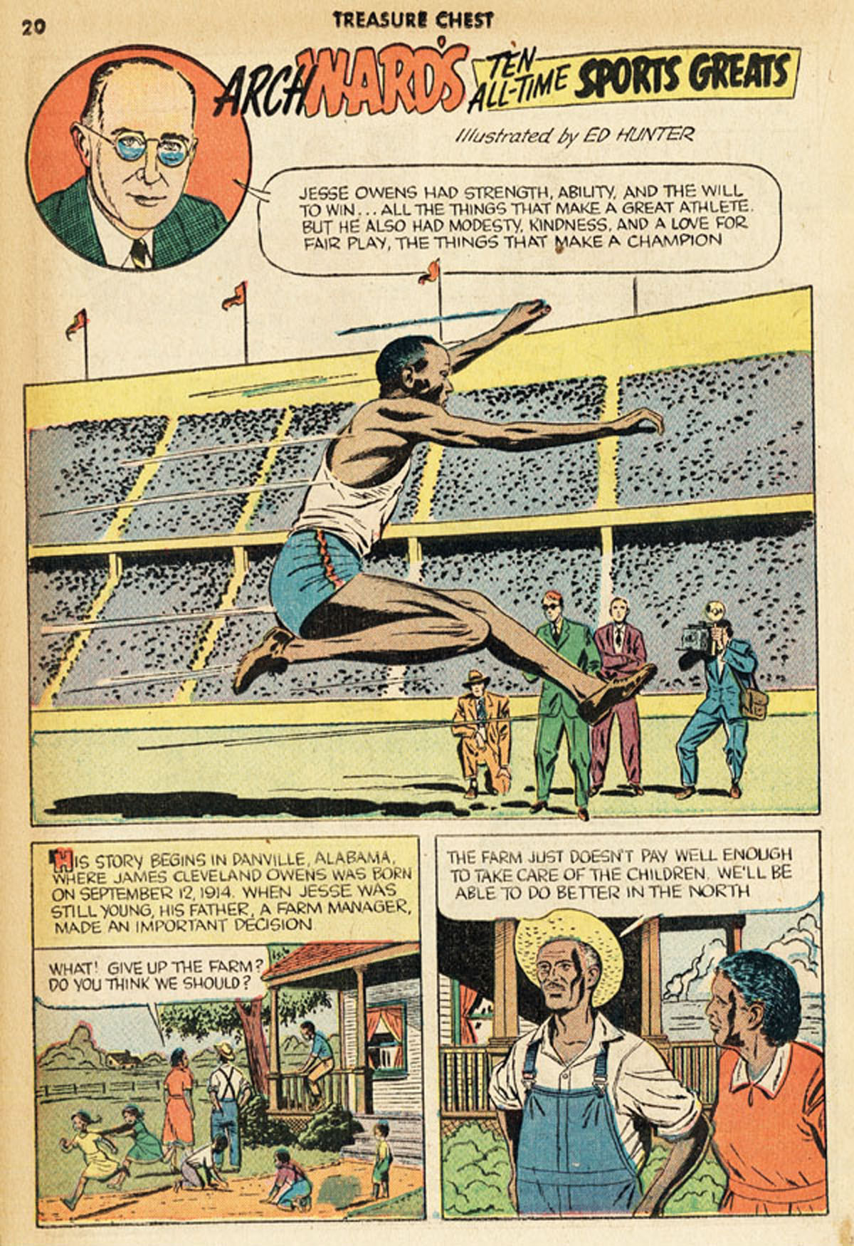 Splash page, "Arch Ward's ten all-time sports greats" (Jesse Owens), "Treasure Chest of Fun and Fact" Vol. 7, No. 20. June 5, 1952 Per the American Catholic History Research Center and University Archives of The Catholic University of America, "The following years are public domain: 1946-1963, inclusive, and 1972." Link